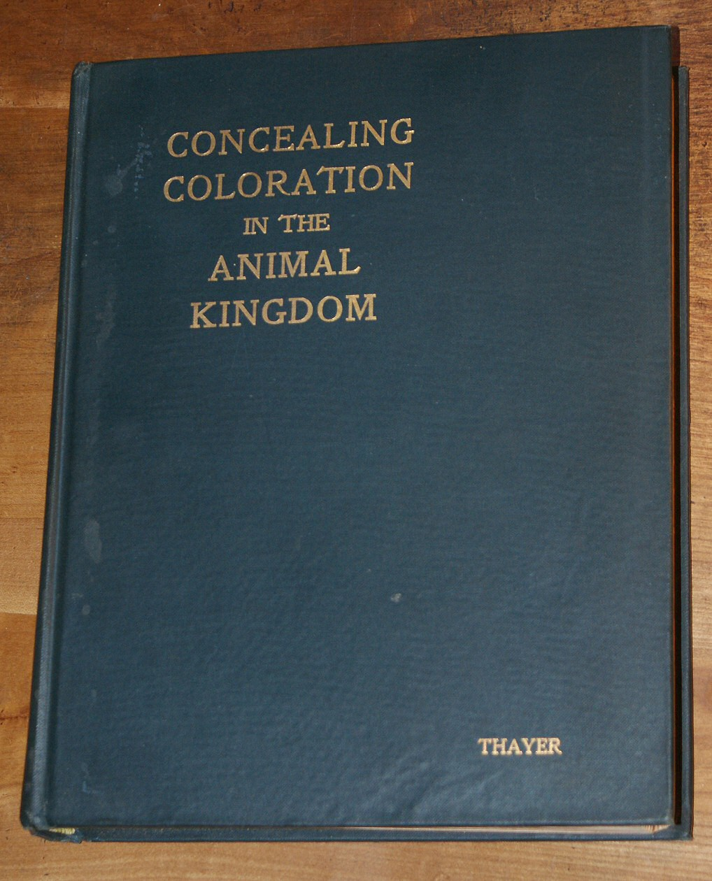 Front Cover of Concealing-Coloration in the Animal Kingdom by Thayer